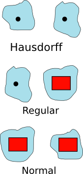 An illustration of some of the separation axioms of topology. A blue region represents an open set, a red rectangle a closed set and a black circle a point.